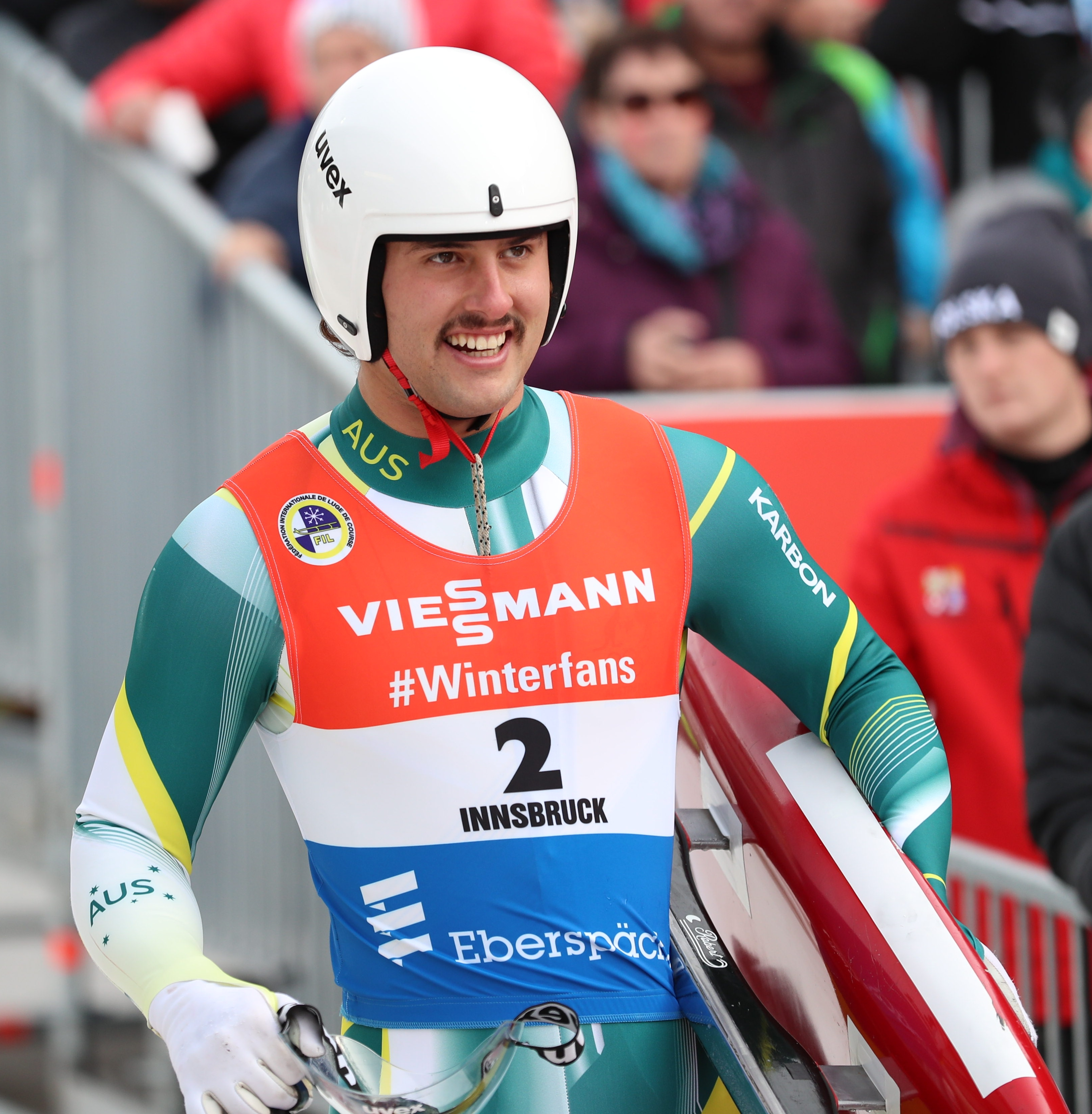 Men's World Cup race at the 2018/19 Luge World Cup in Innsbruck-Igls